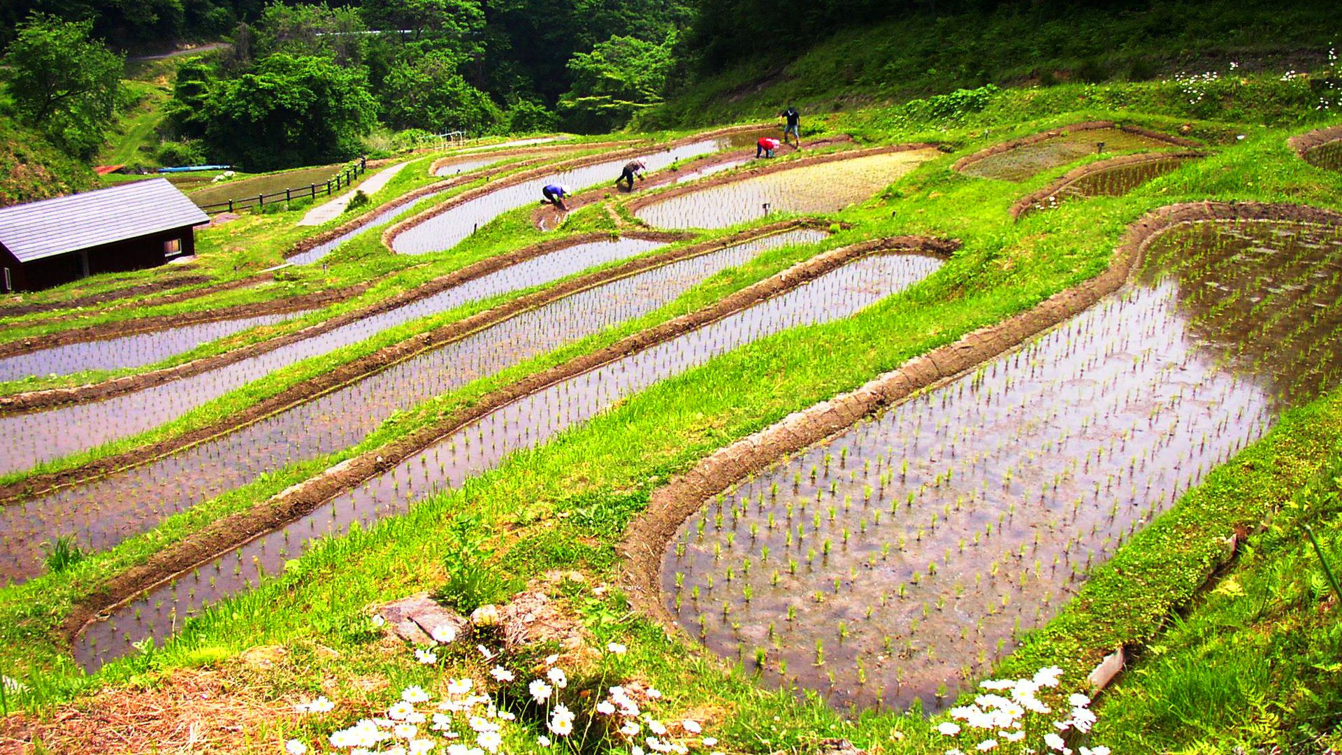 Rice Terrace, Sanazawanomori, Minakami, Gunma, Japan